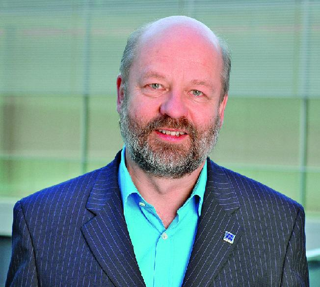 Hans-Josef Fell is a German politician and member of the Green Party serving in the German Parliament.